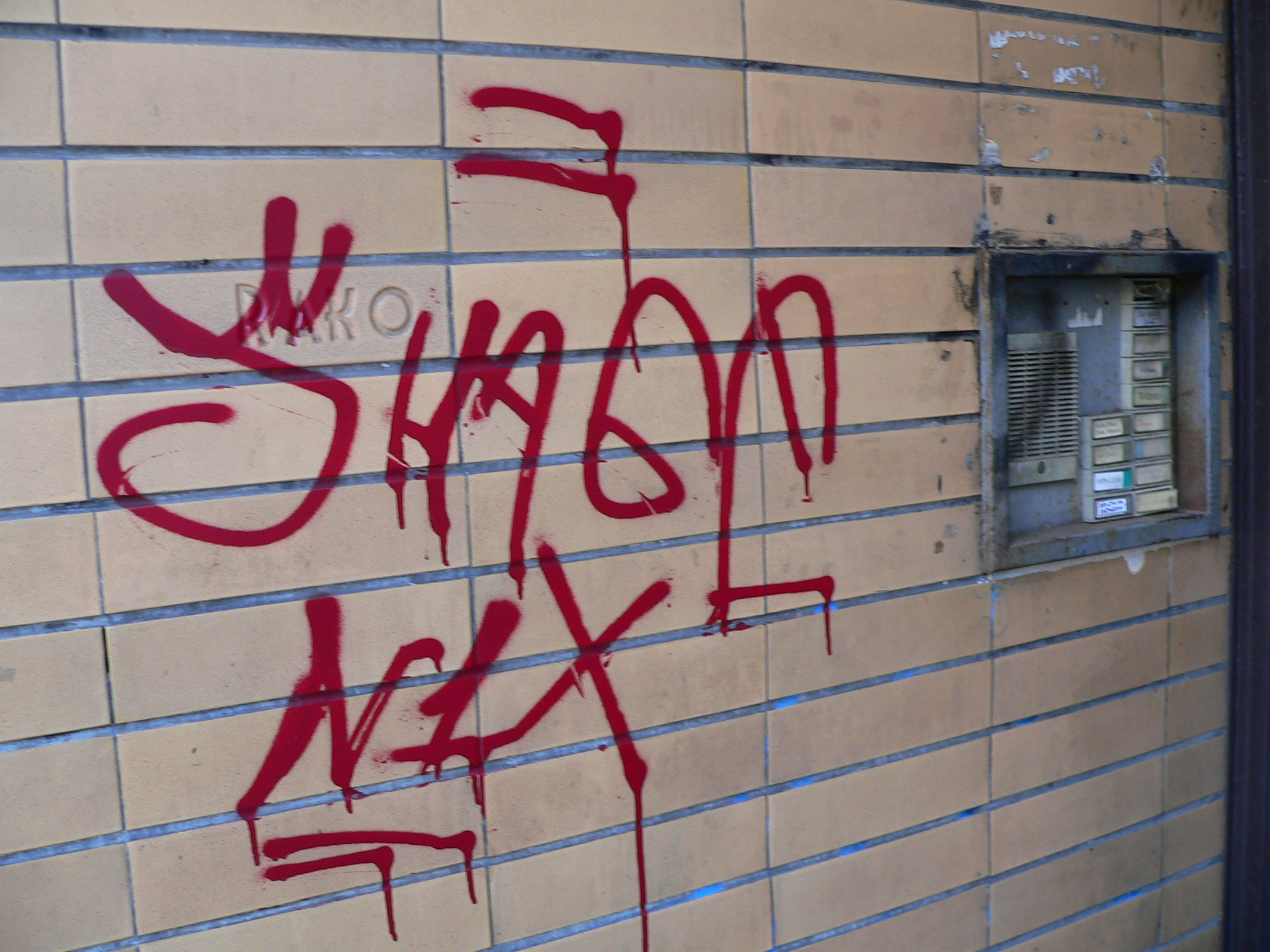 Graffiti - tag, Brno